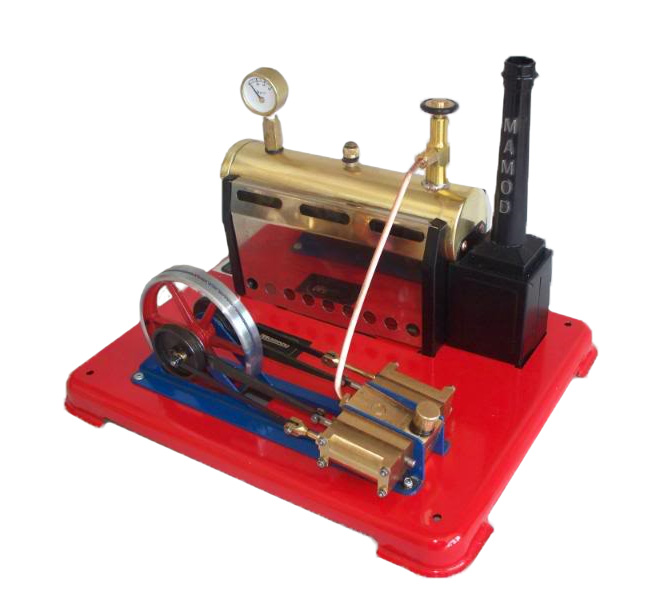 A Mamod SP7 engine. Permission granted by to upload this image.